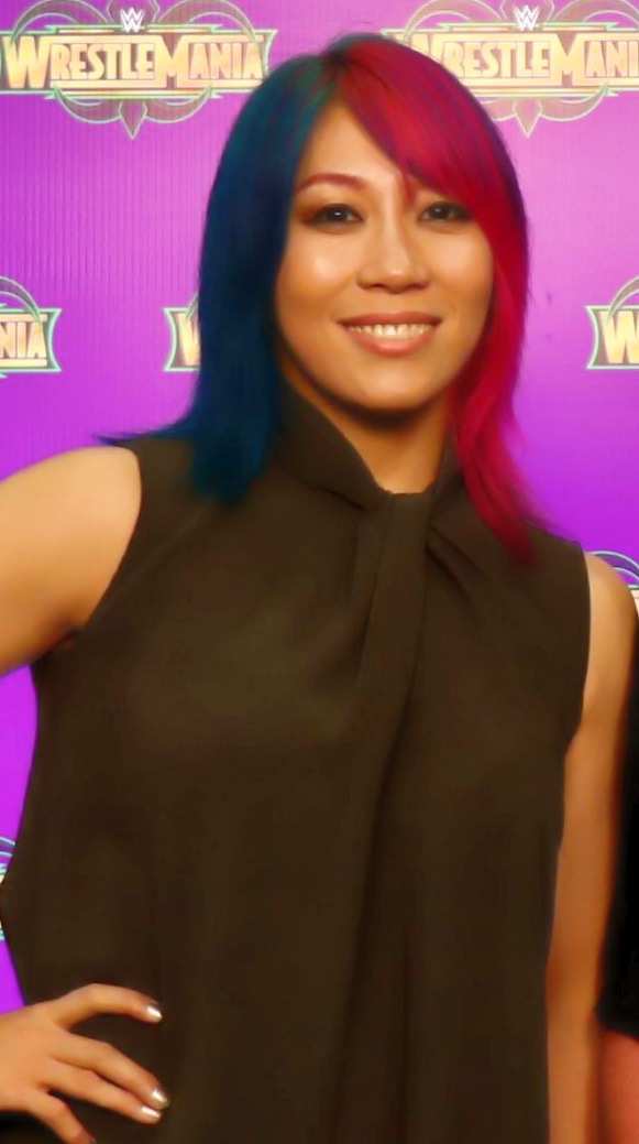 Asuka at the 2018 edition of the WrestleMania Axxess.